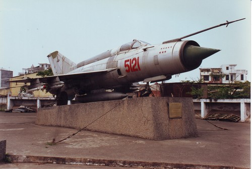 Mig-21MF at the Vietnamese People's Air Force Museum, Hanoi